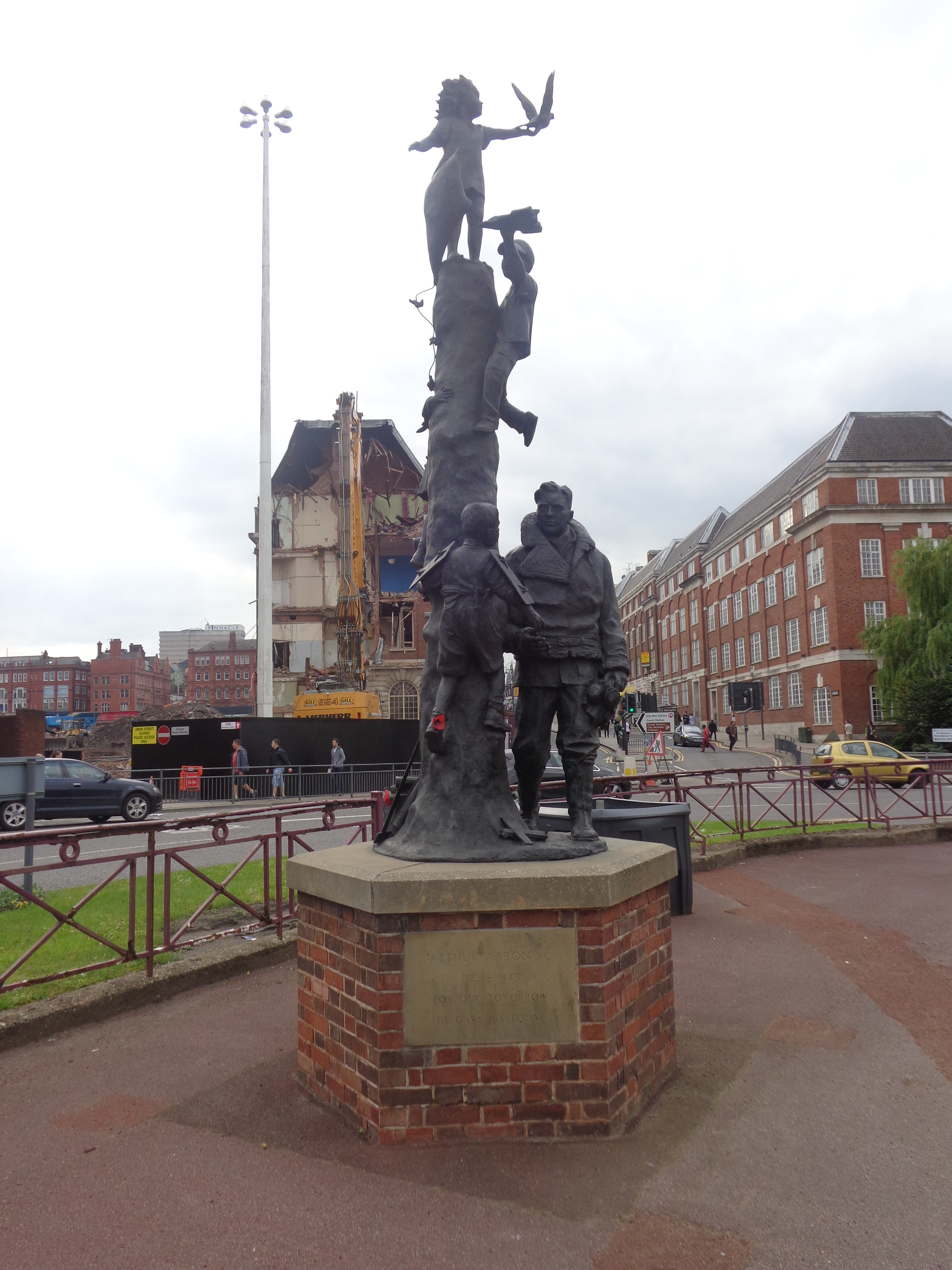 Arthur Aaron VC memorial, Eastgate roundabout, Quarry Hill, Leeds. Taken on the afternoon of Friday the 30th of May 2014.